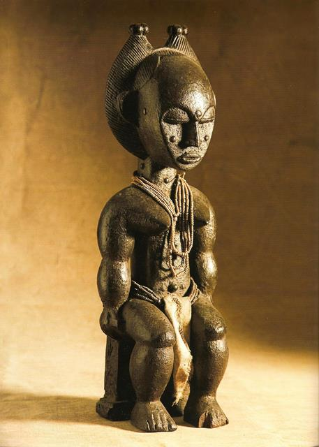 Godess Attie - African statue of the 19th century